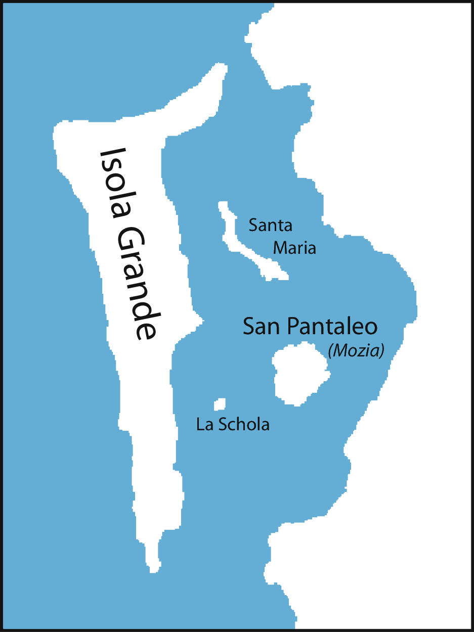 Position of Islands of Isole dello Stagnone (TP), Sicily, Italy